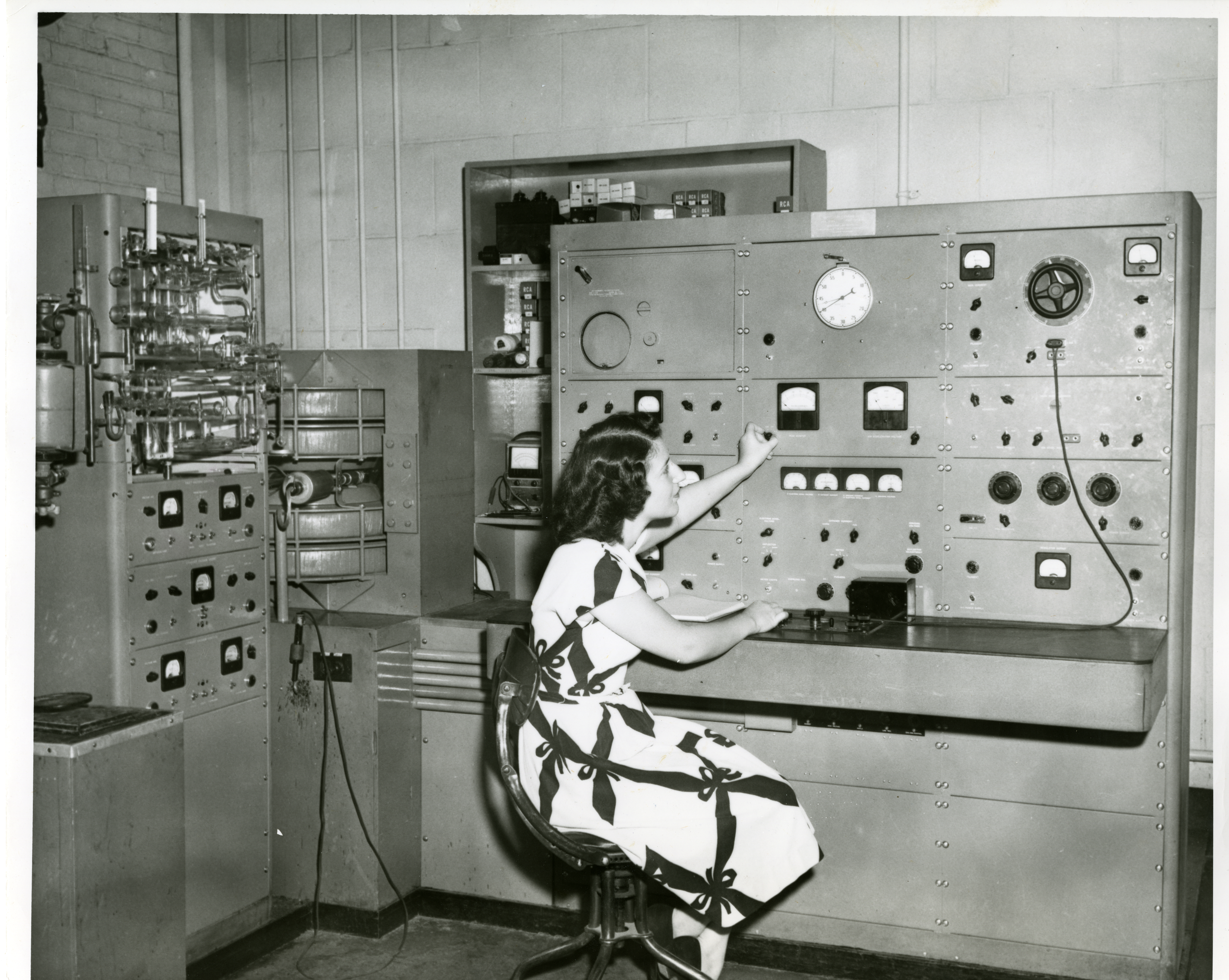 This spectrometer ionized the gas at extremely low pressure and measured the mass of the resulting ions. Molecules were identified by their molecular weight and by the molecular weights of their dissociation products. After the gas was introduced, the instrument proceeded automatically to produce a mass spectrum record.